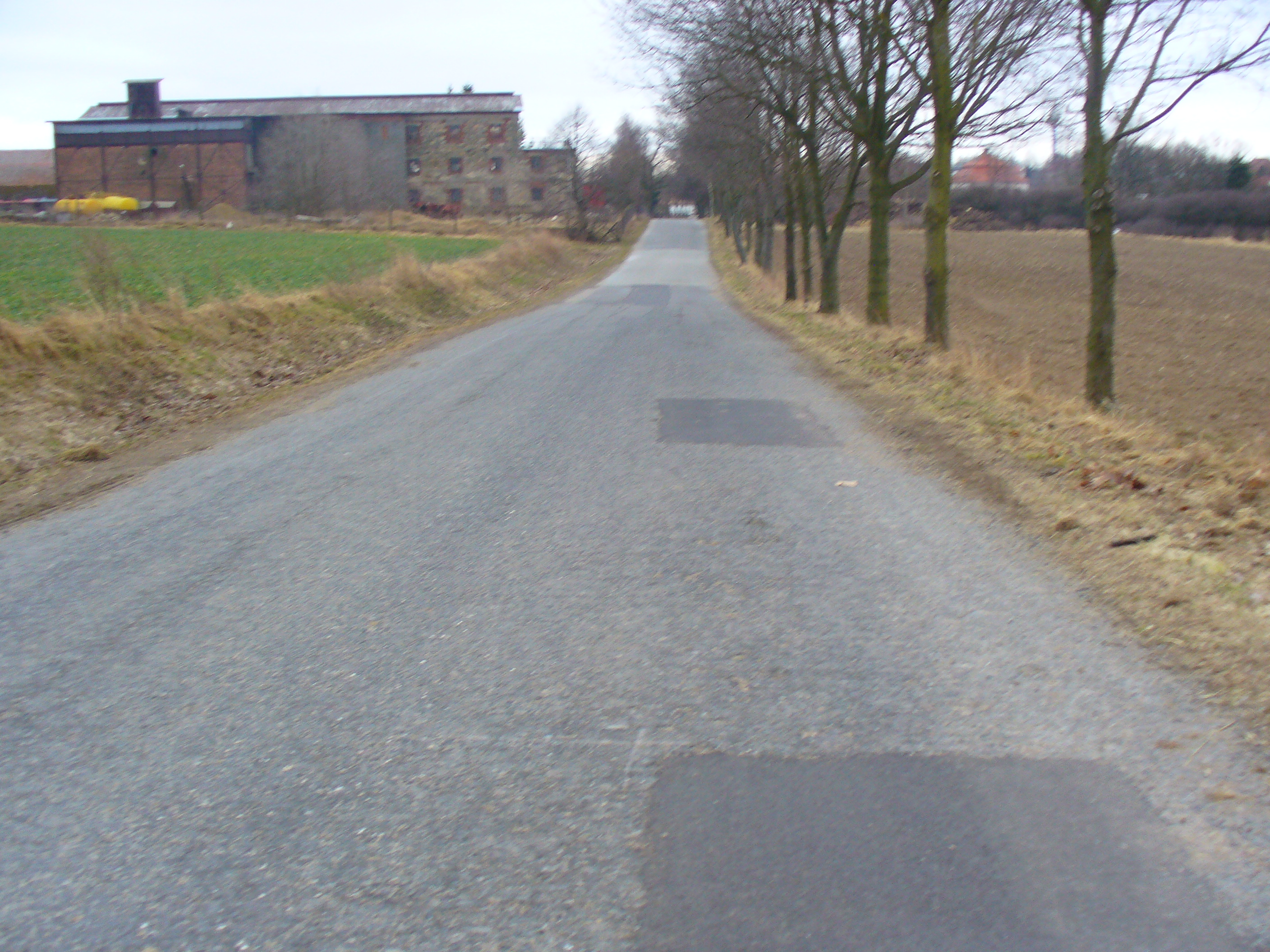 This is kovarov in the nort. Foto on the hill of kovarov